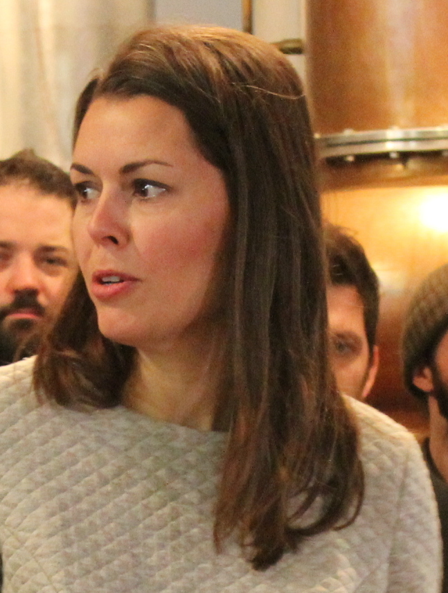 Liz Olson Speaking at Paid Time to Care Press Conference in Duluth